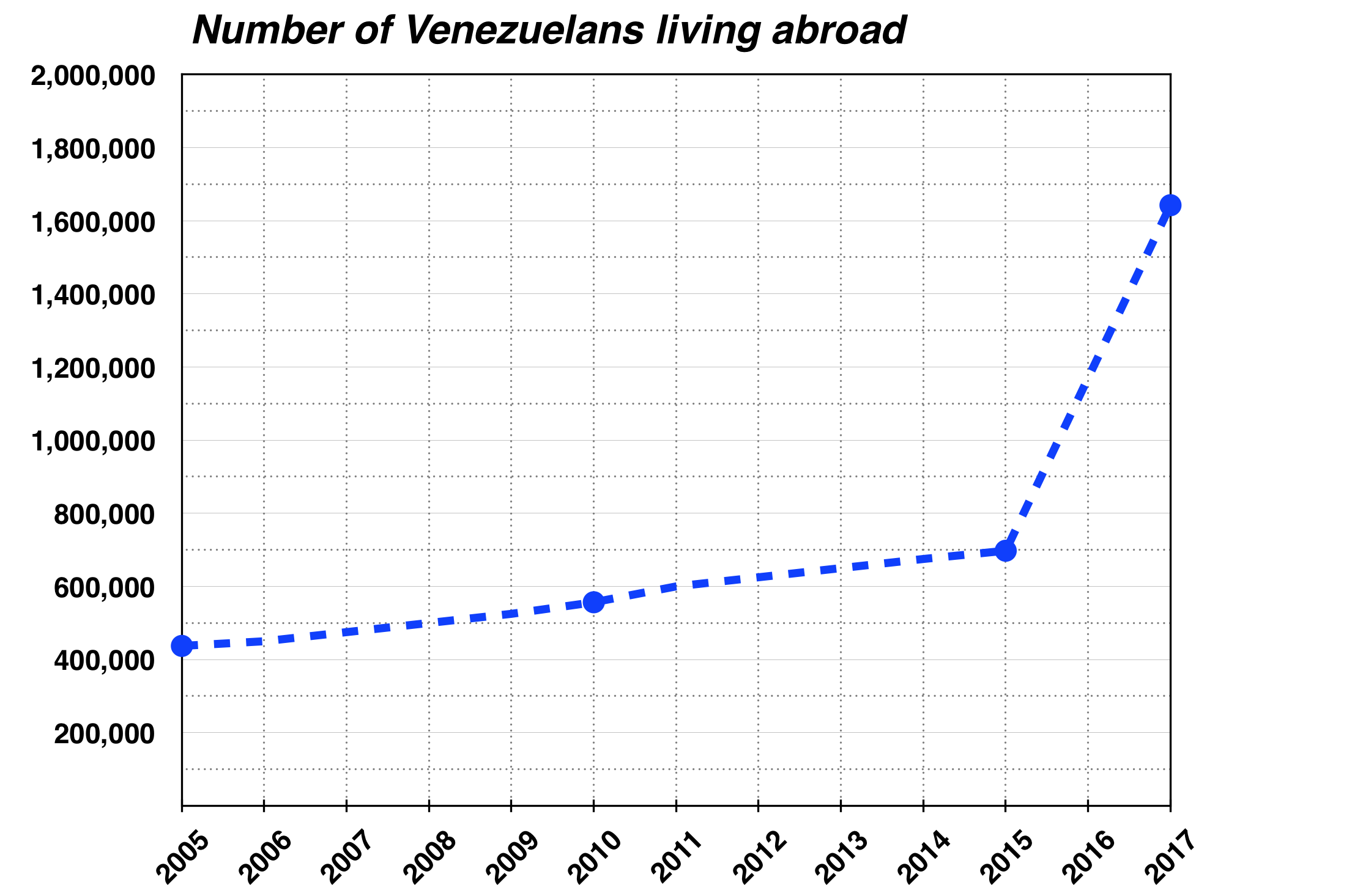 Number of Venezuelans living abroad according to the International Organization for Migration.